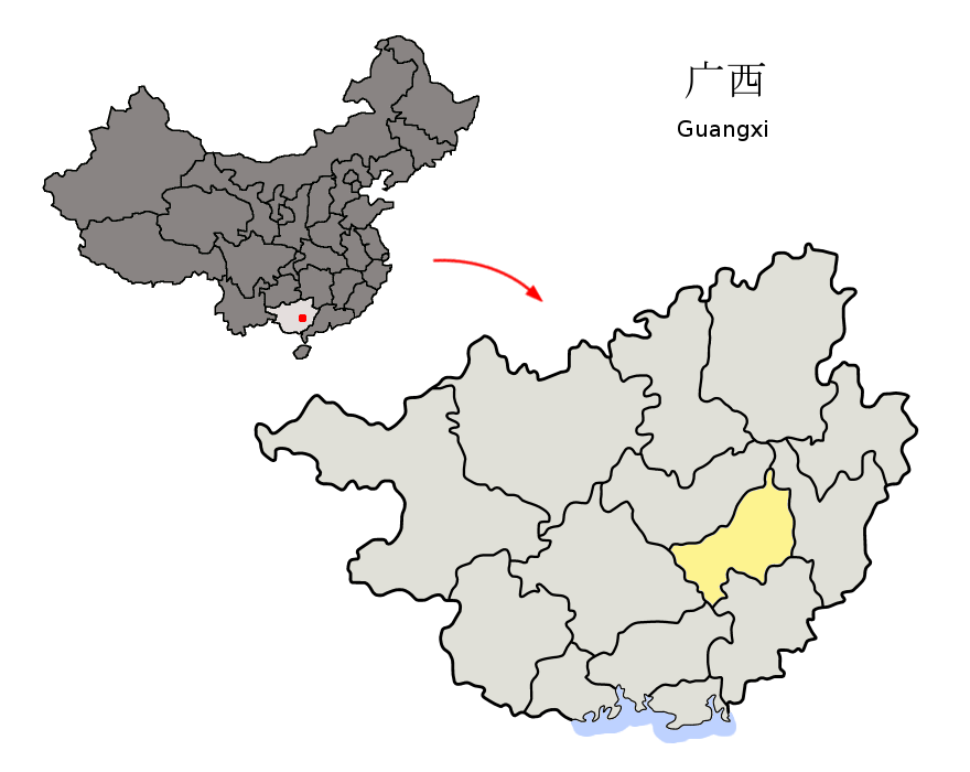 Location of Guigang Prefecture (yellow) within Guangxi Autonomous Region of China Map drawn in november 2007 using various sources, mainly : Guangxi Autonomous Region administrative regions GIS data: 1:1M, County level, 1990 Guangxi Counties map from